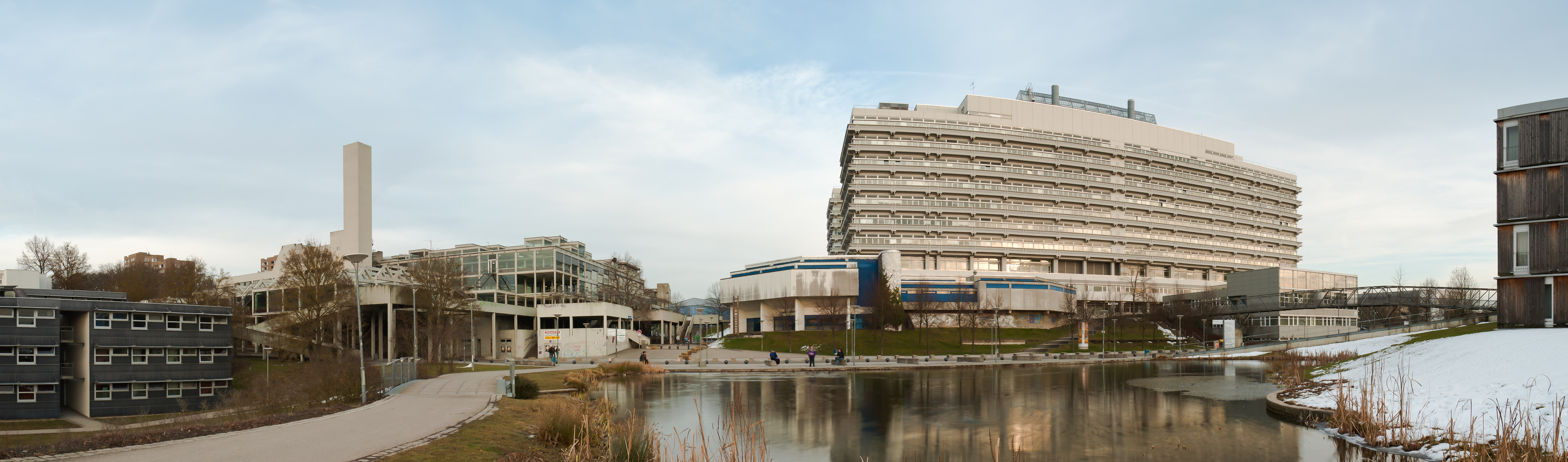 Panorama of V57, Cafeteria and the surrounding area on the campus of Stuttgart University, Germany.